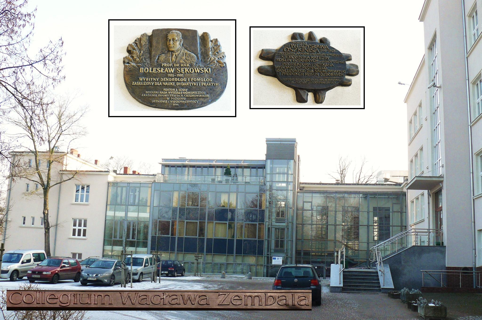 Collegium Zembala, Poznan.